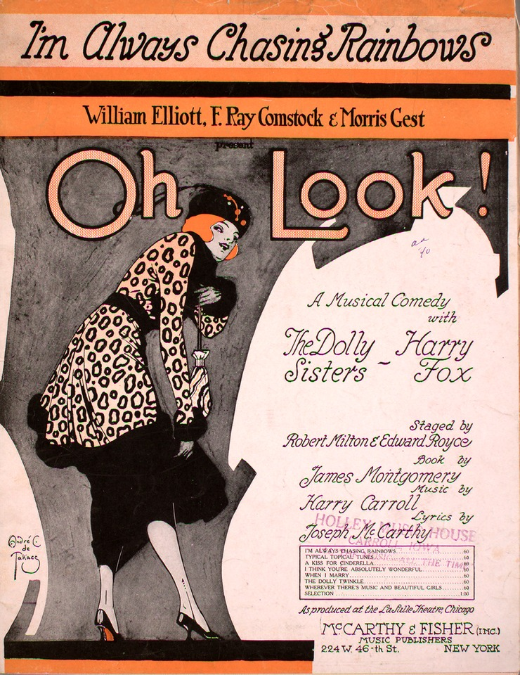 Sheet music cover